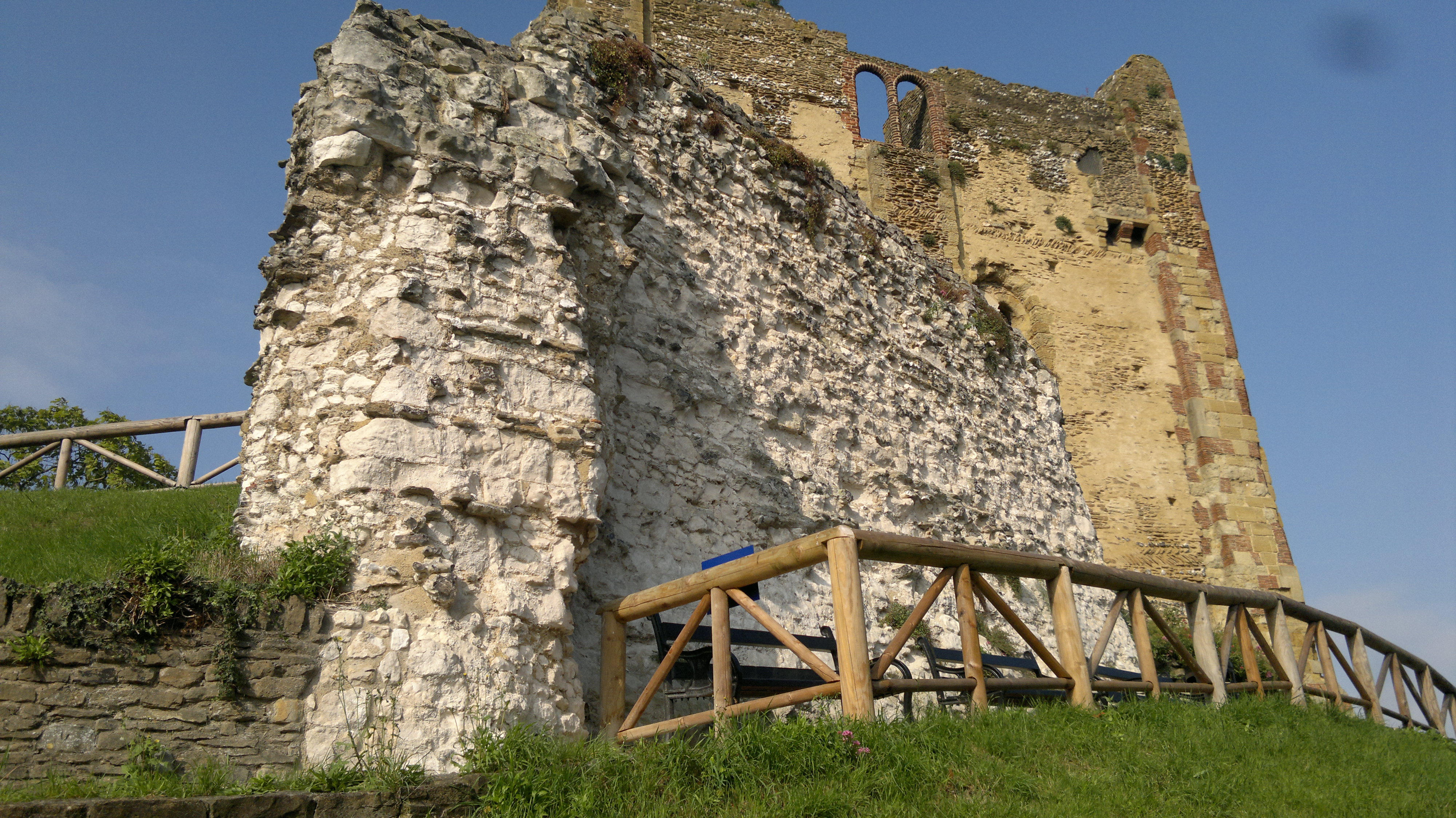 Remains of the shell keep at Guildford Castle, with the 12th-century keep in the background